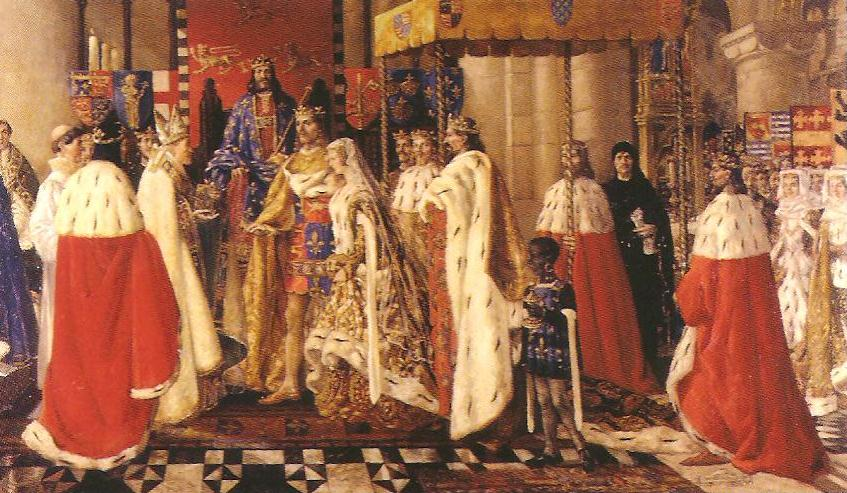 The Marriage of John of Gaunt and Blanche of Lancaster in Reading Abbey on 19 May 1359, today located in The Museum of Reading